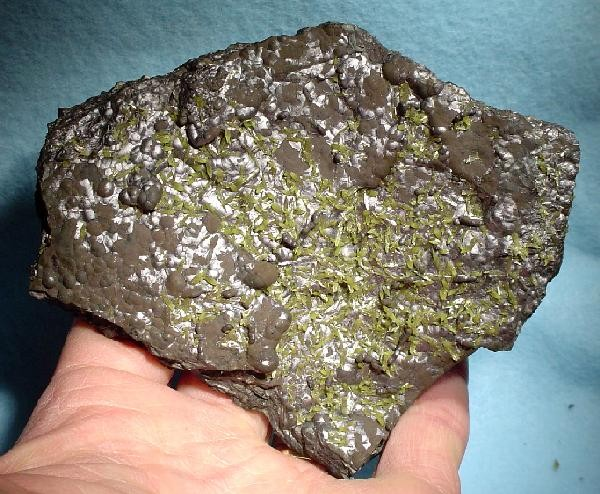 Pyromorphite, Coronadite Locality: Blackwood open cut, MMM Mine, Broken Hill, Yancowinna County, New South Wales, Australia (Locality at ) Size: 11.1 x 9.5 x 3.0 cm. Highly lustrous spindles of oil-green pyromorphite crystals to 7 mm are FESTOONED on both sides of the botryoidal coronadite CABINET crust on this EXCELLENT specimen from the famous Broken Hill deposit of Australia. This showy, large piece came from the Blackwood Open Cut of the MMM Mine. Green Broken Hill pyromorphite is not that common and this is a very fine specimen. Ex. William Hiss Collection.